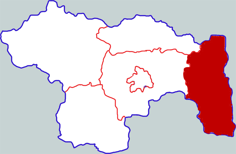 Location of Yanling county in Xuchang city, China